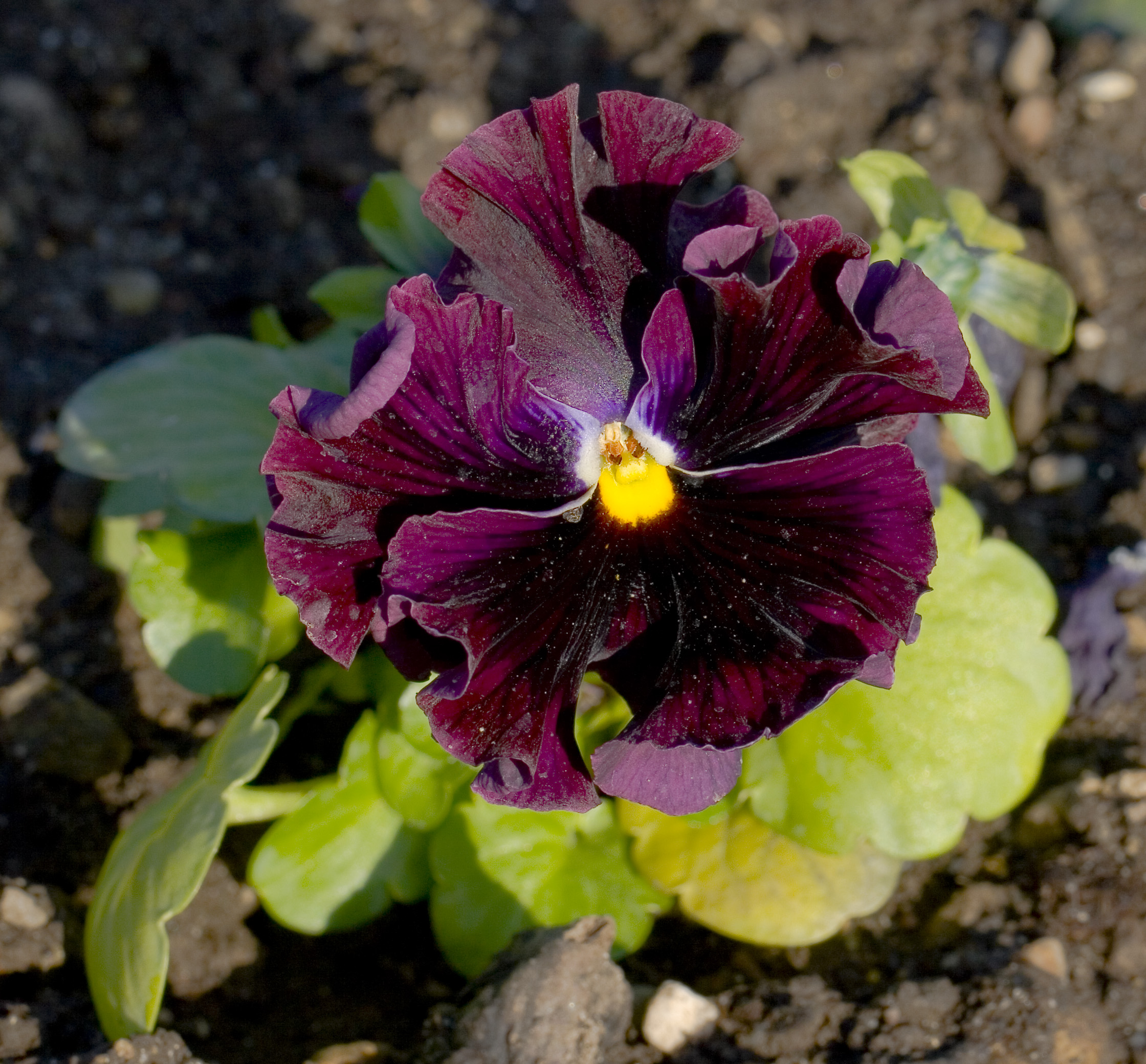 Pansy (Viola wittrockiana), Nymphenburg, Munich, Germany